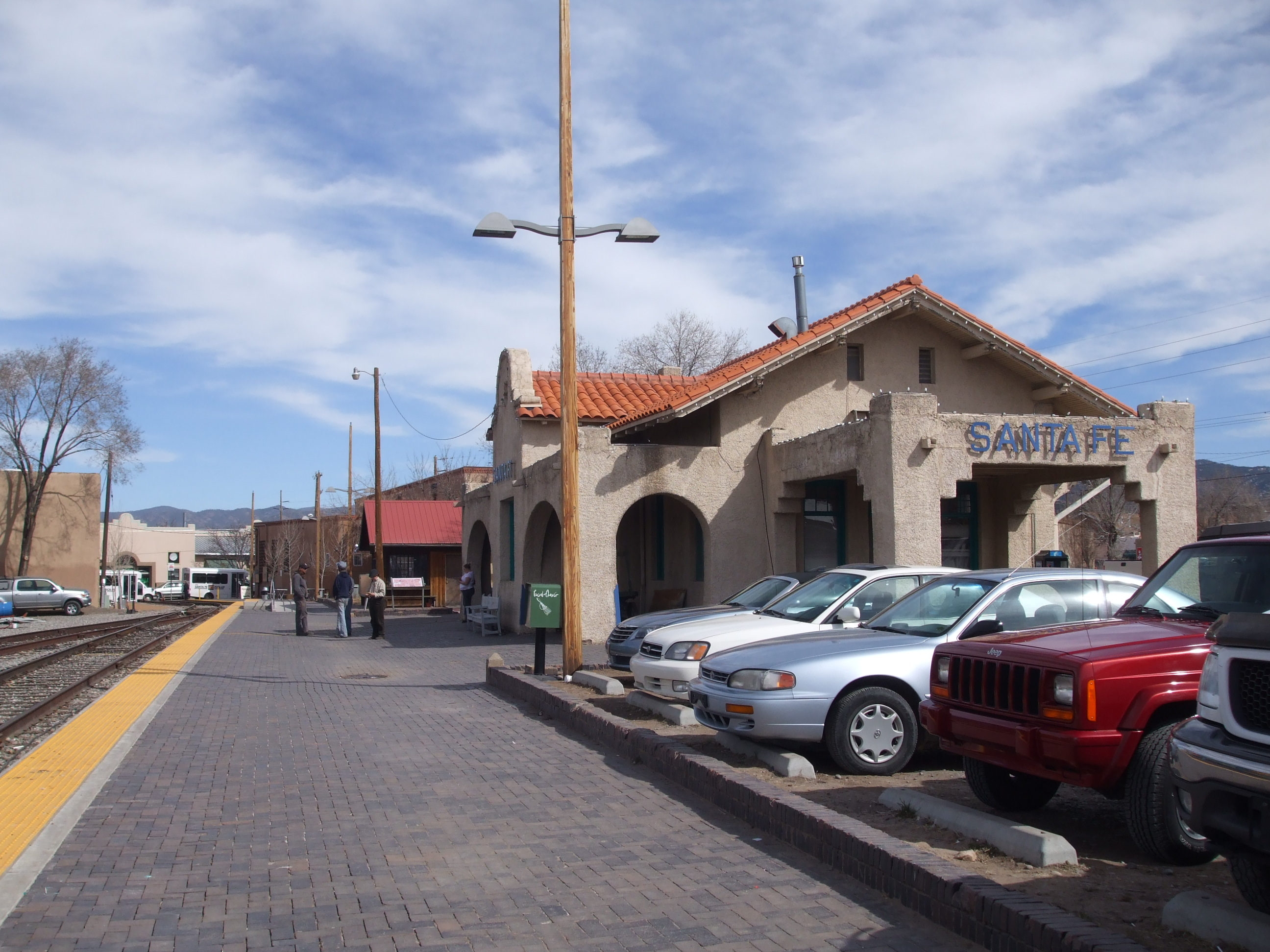 Santa Fe Depot station, the northern terminus of the Rail Runner Express, viewed from the south